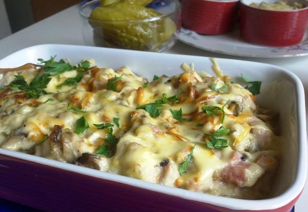 Julienne, a zakuski dish of Russian cuisine. Мushrooms and chicken in cream or béchamel sauce topped with grated cheese and baked in a cocotte.